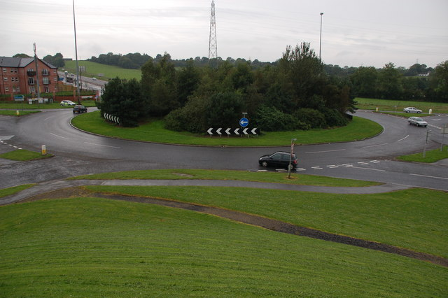 Corr's Corner near Glengormley, ceased to be a corner in the 60’s when the Belfast-Larne road was re-built. The road at middle left is the Ballyclare Road, Glengormley, the A8(M) to Belfast is top left, the road to Ballyclare top right and the road from Larne is at bottom right.